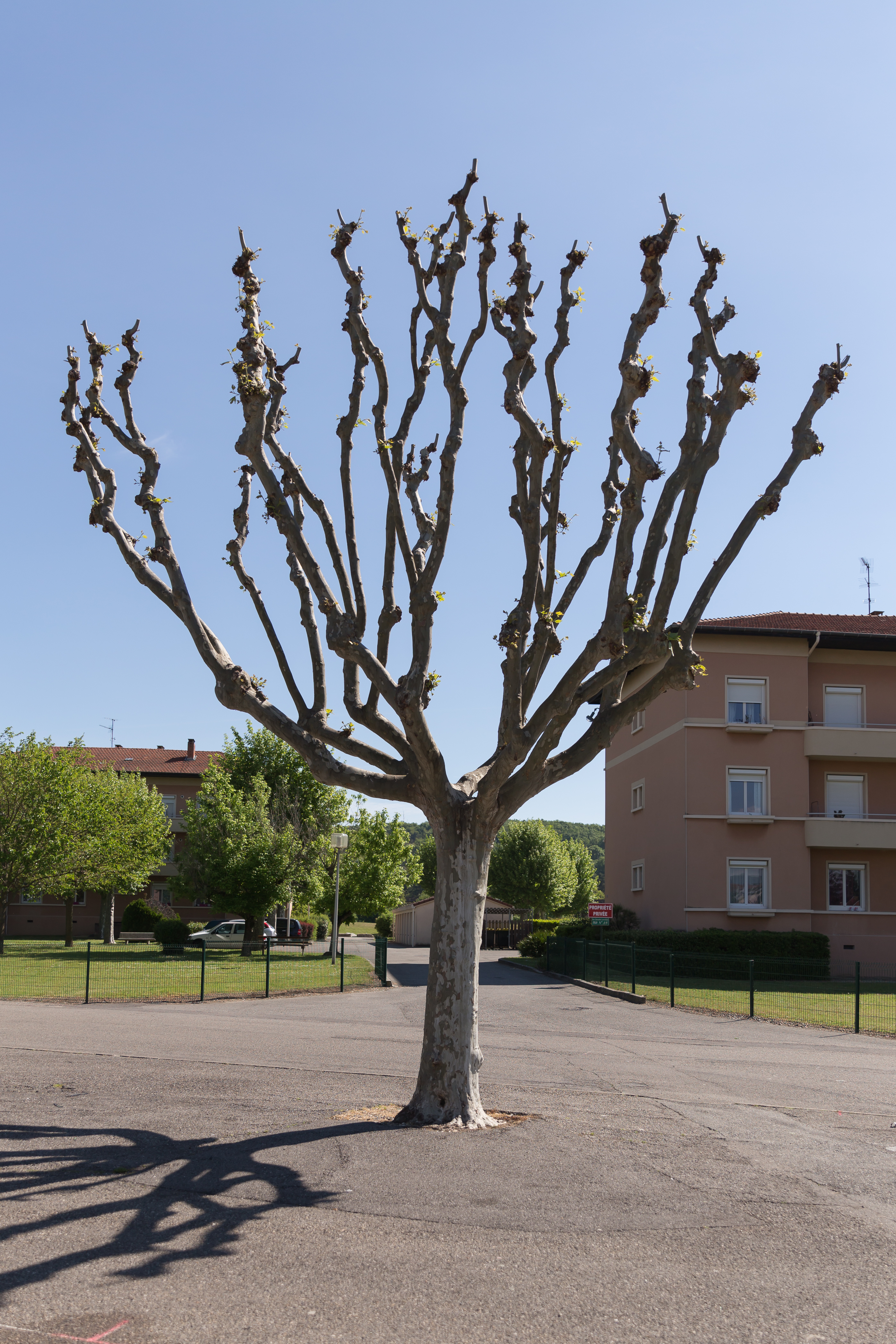 Platanus × hispanica (London plane) pruned at Roussilon in Isère, France.